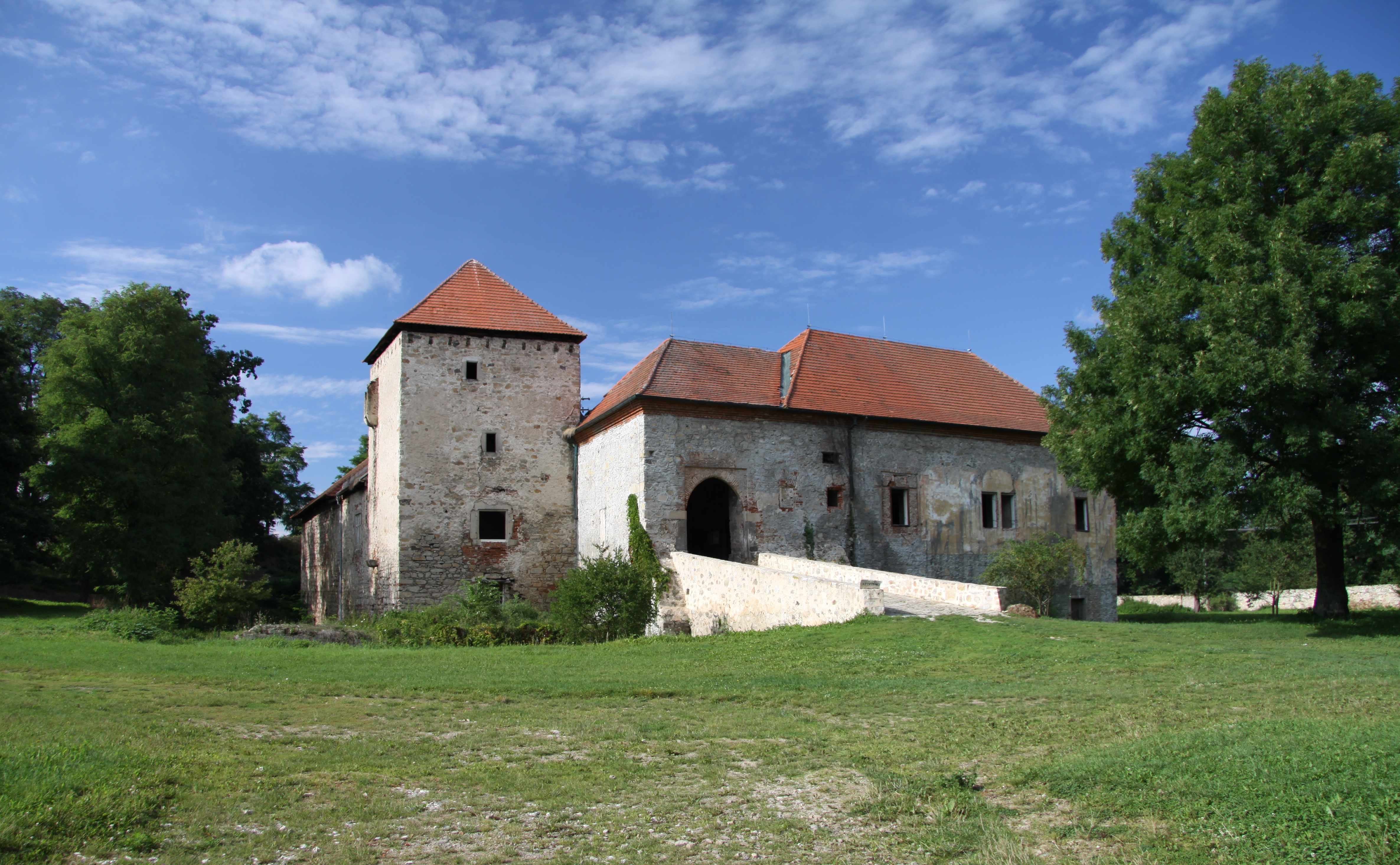 Castle "Horní tvrz" in Kestřany village, Písek district, Czech Republic.